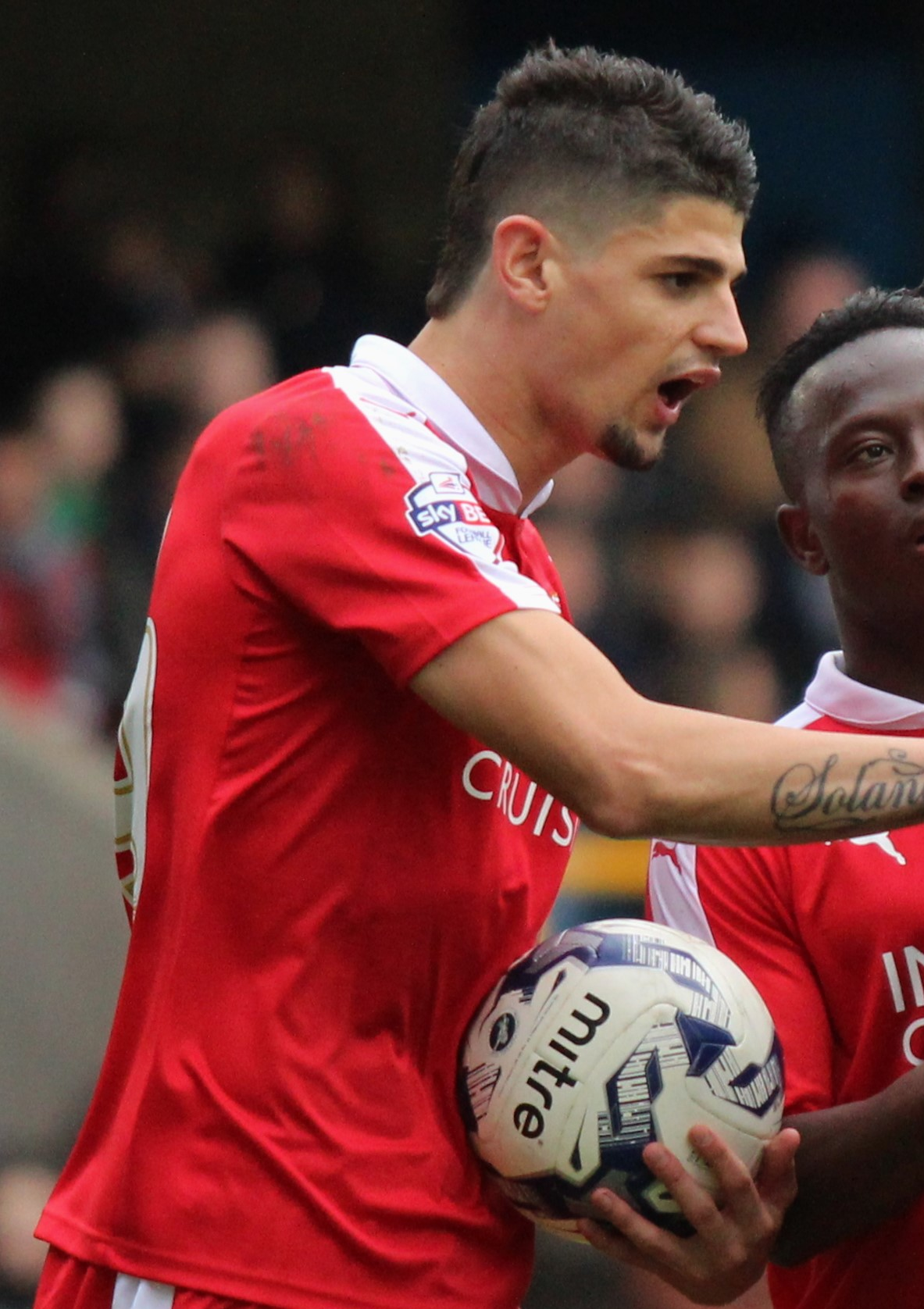 Raphael Rossi-Branco of Swindon Town and Lee Gregory of Millwall push at each other.